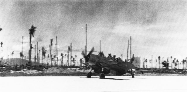 The first fighter plane to land on Munda Point airfield on New Georgia after its capture by Allied forces was a VMF-215 Corsair flown by Maj Robert G. Owens, Jr., on 14 August 1943. Flight operations began immediately to cover the Vella Lavella landings.